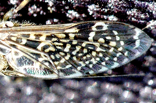 Picture taken in Commanster, Belgian High Ardennes . Species: Haematopota pluvialis, wing detail